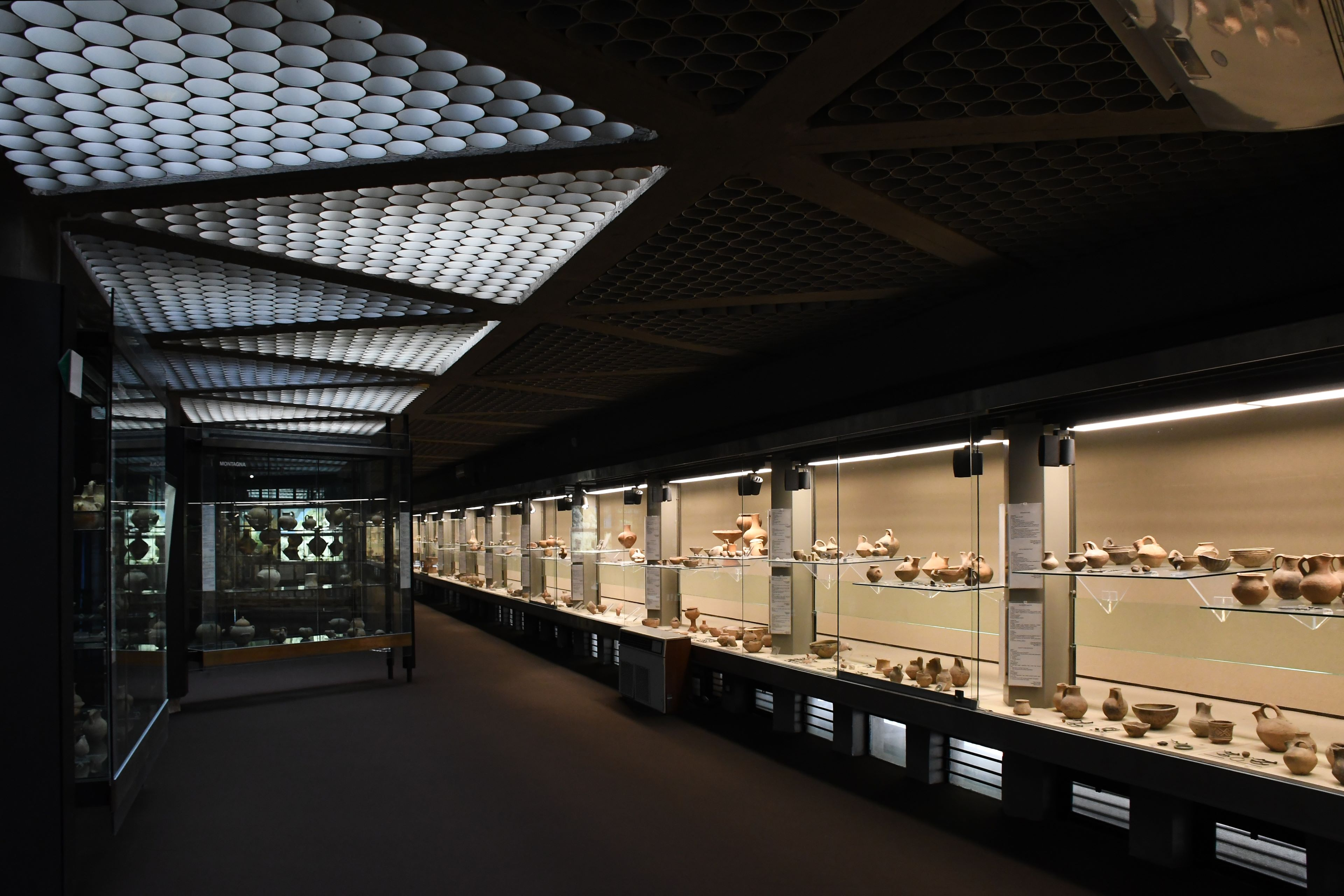 Siracusa, Museo Archeologico Regionale Paolo Orsi